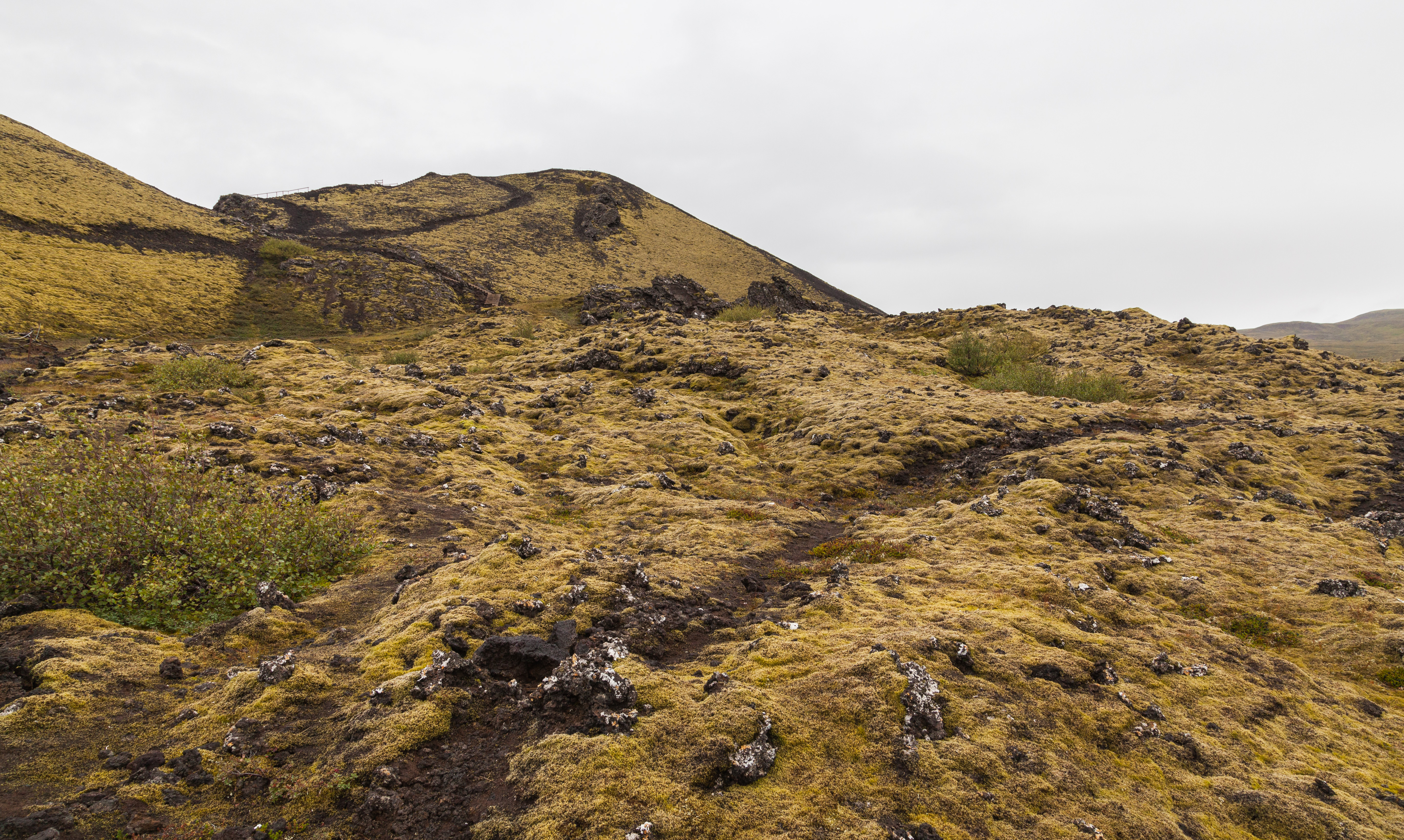 Stóri Grábrók crater, Vesturland, Iceland